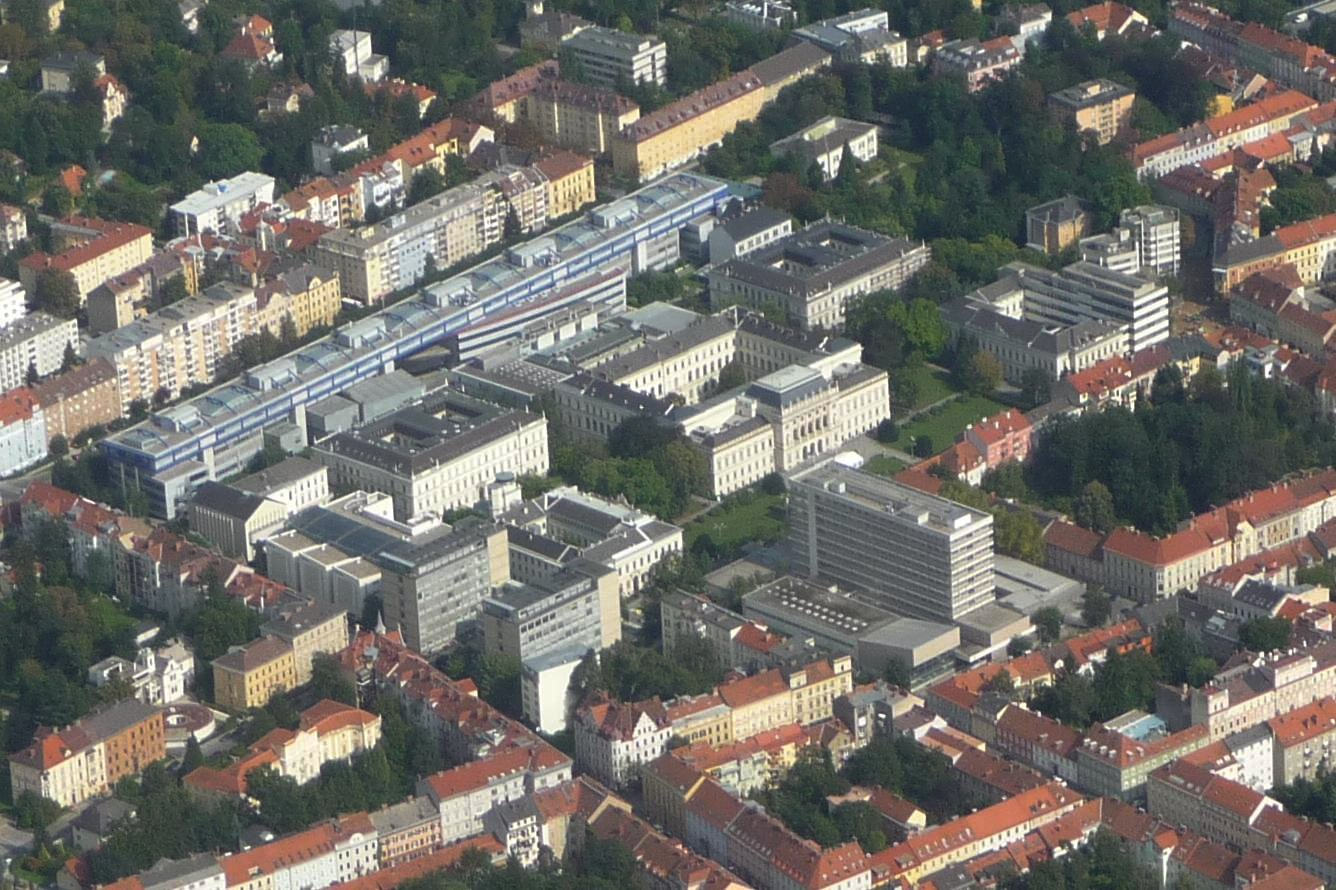 aerial photography of the main campus of university of graz